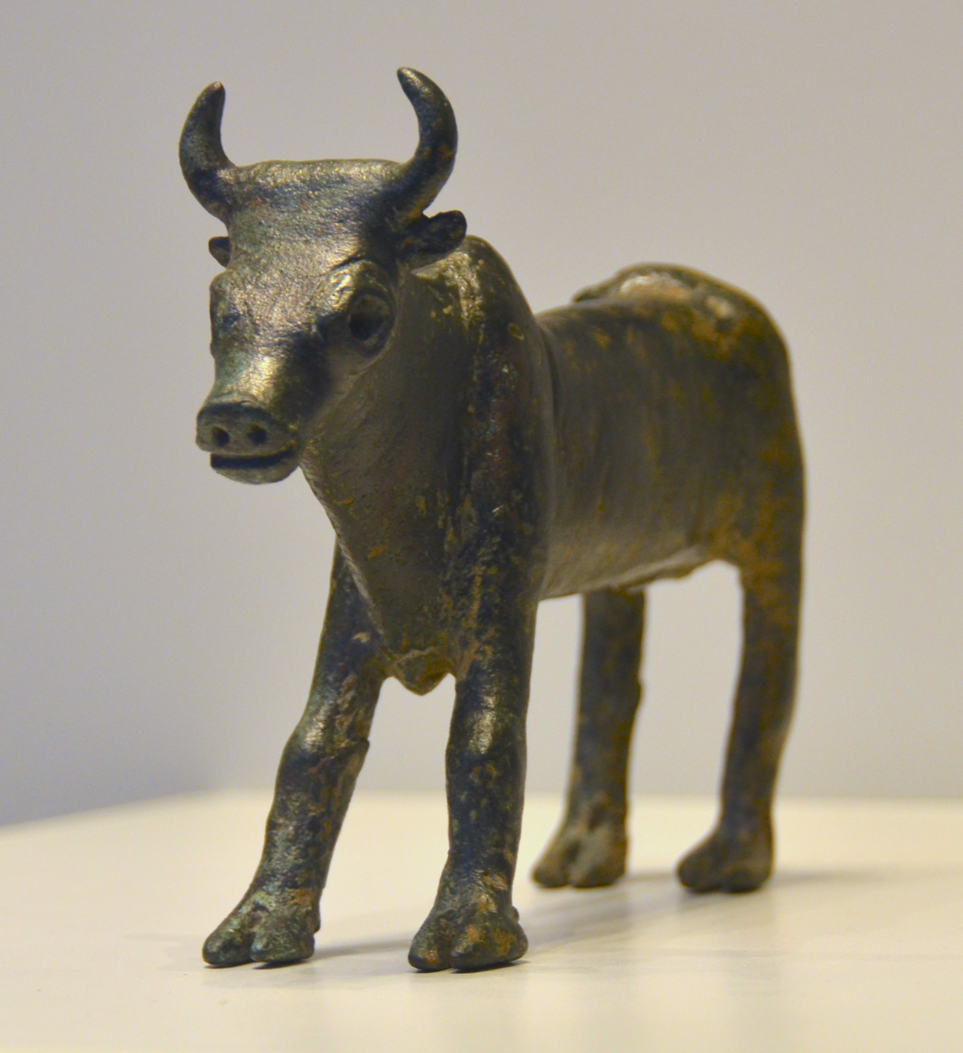 The bronze Bull Statuette discovered at the 12th century BCE cult site at Dhahrat et-Tawileh, Samaria